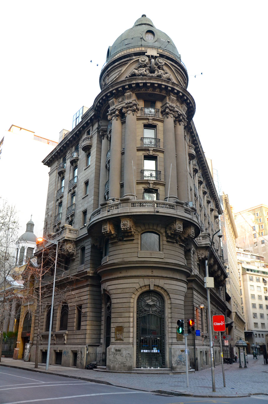 This is a photo of a national monument in Chile: 1639